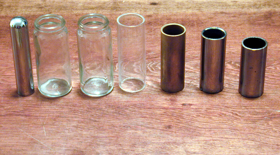 Various guitar slides. Includes two original Coricidin bottles from the 1970s--the favorite of many slide guitar players, including Duane Allman. Photo taken in Pompton Plains, Pequannock Township, New Jersey, United States.